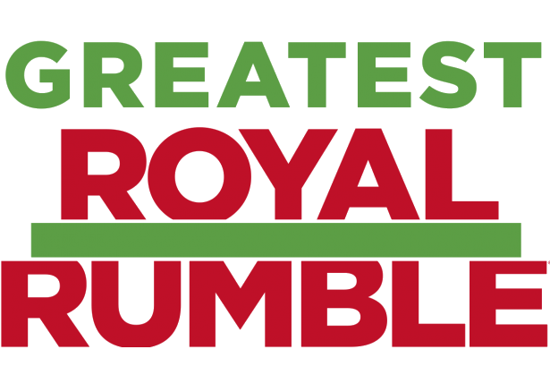 WWE Greatest Royal Rumble Logo